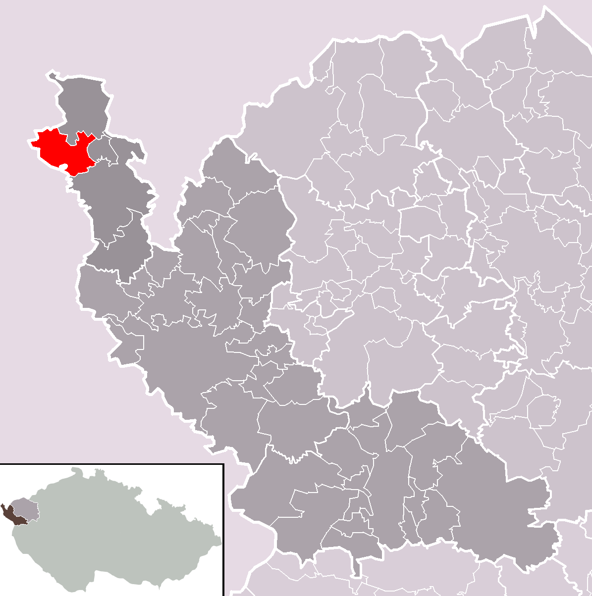 Location of Krásná municipality within Cheb District and administrative area of Aš as a Municipality with Extended Competence.